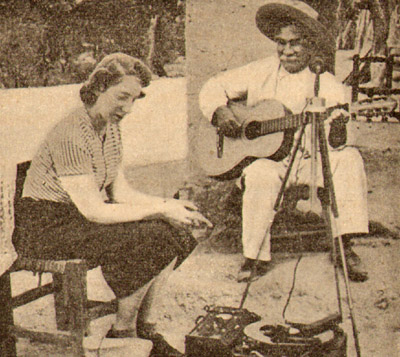 The famous researcher Isabel Aretz